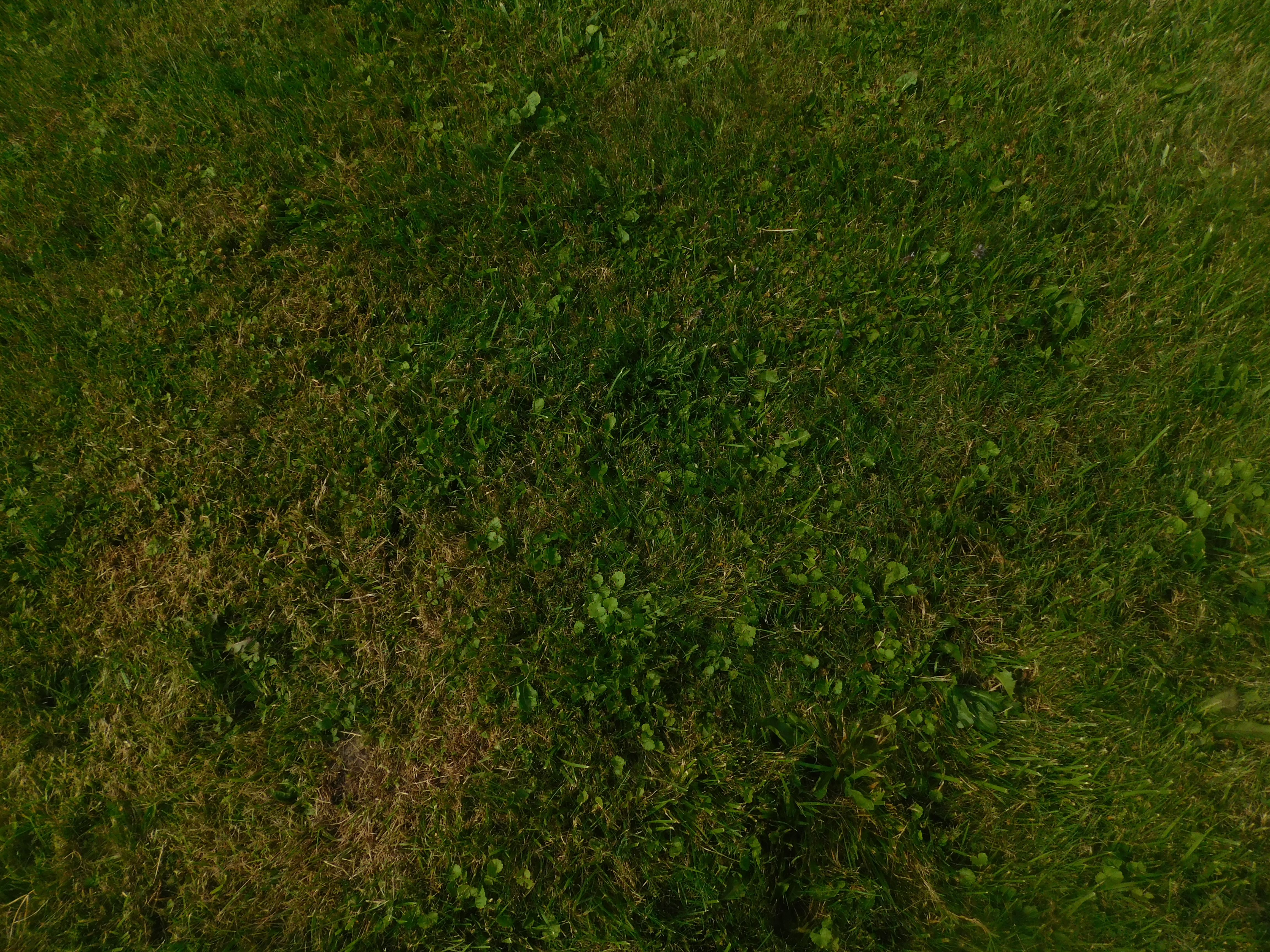 The gravesite of Eddie Phillips, the backup catcher of the 1932 New York Yankees World Series champions.